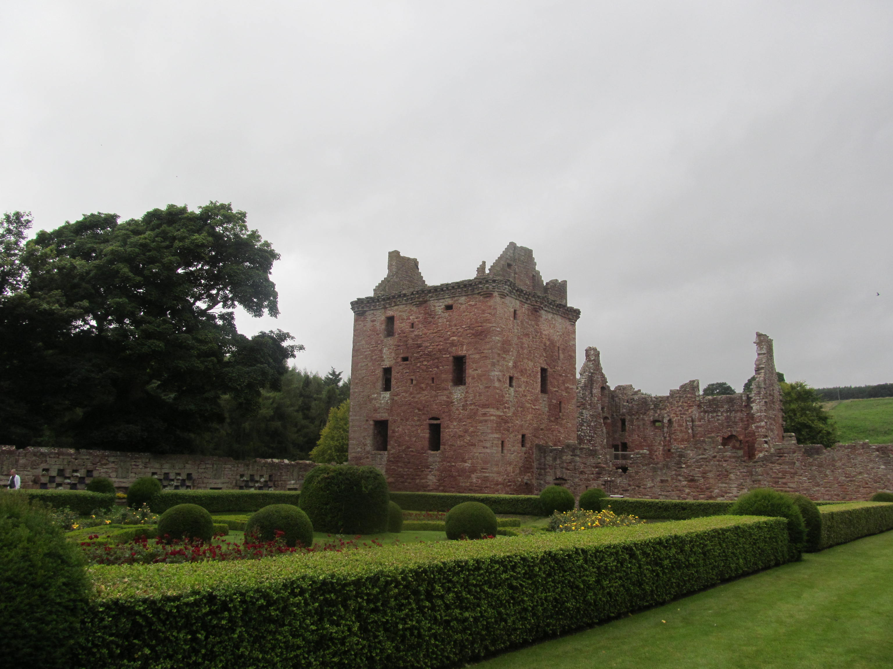 Tower of the Edzell castle